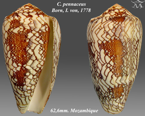 Conus pennaceus 2